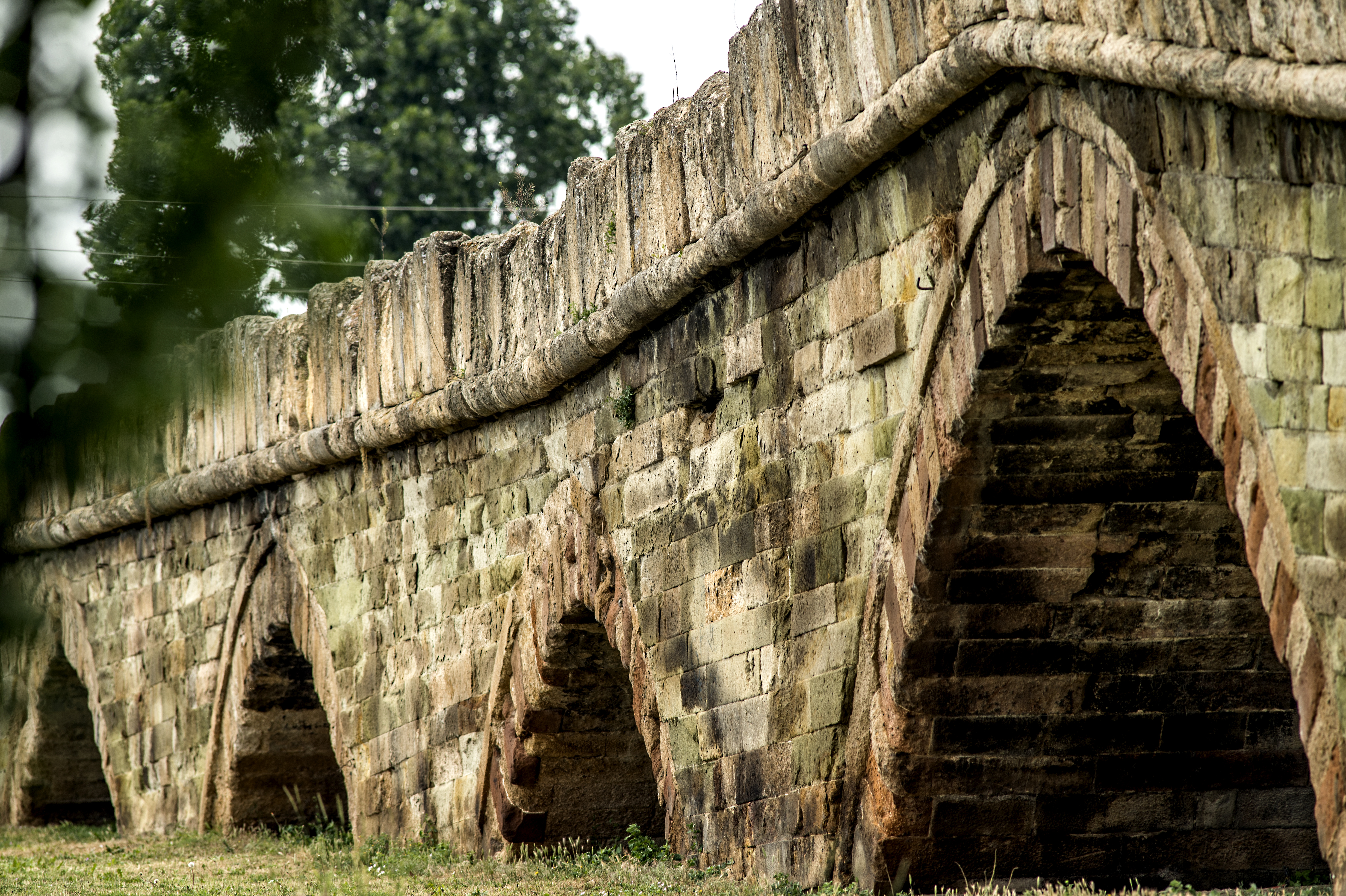 The Old Stone Bridge in VushtrriaShqip: Ura e Vjetër e Gurit në Vushtrri